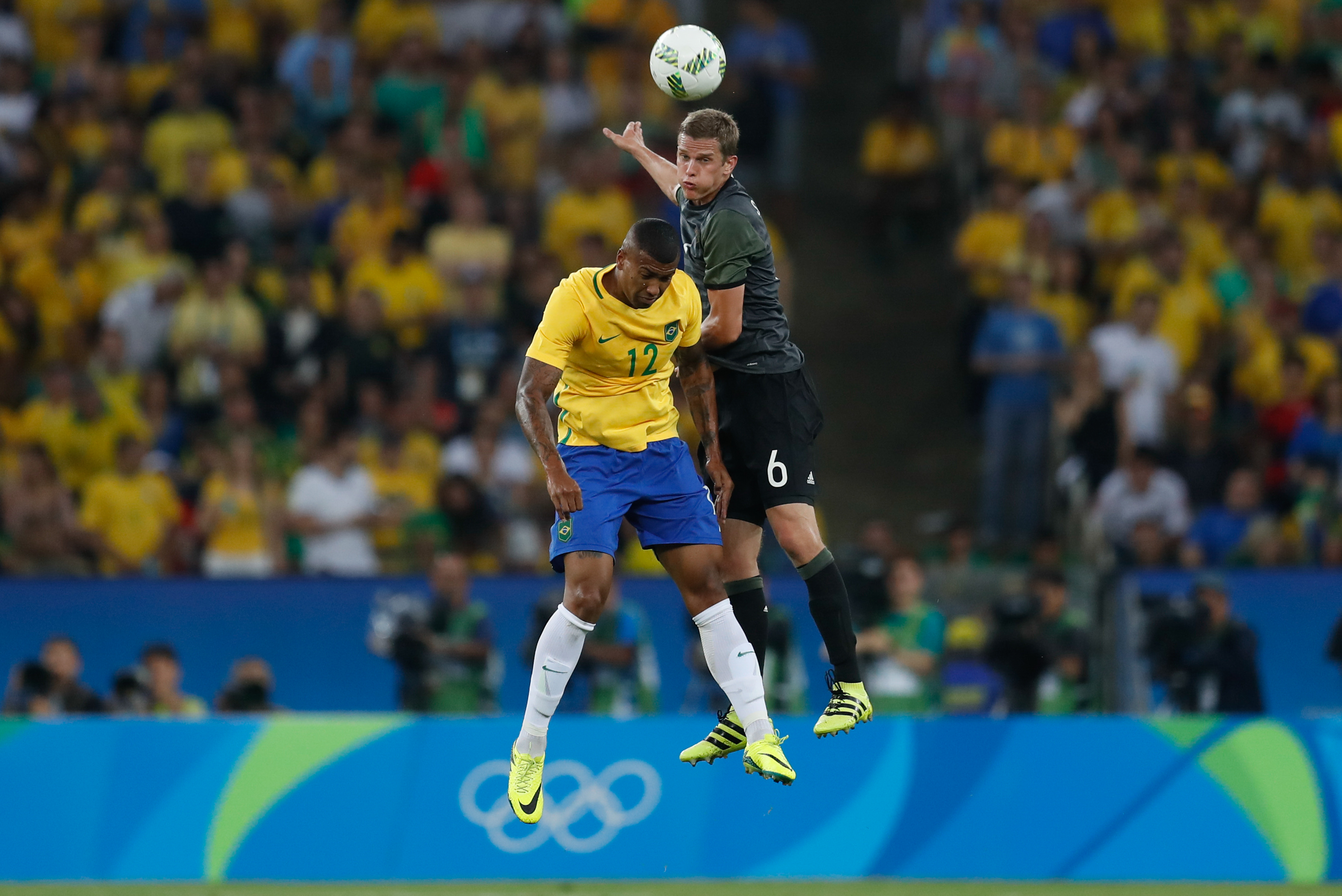 Rio de Janeiro - Brasil e Alemanha disputam a medalha de ouro no futebol masculino (Fernando Frazão/Agência Brasil)